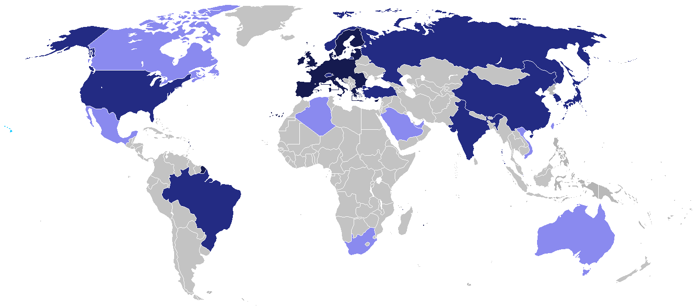 Map of the EU's largest trading partners